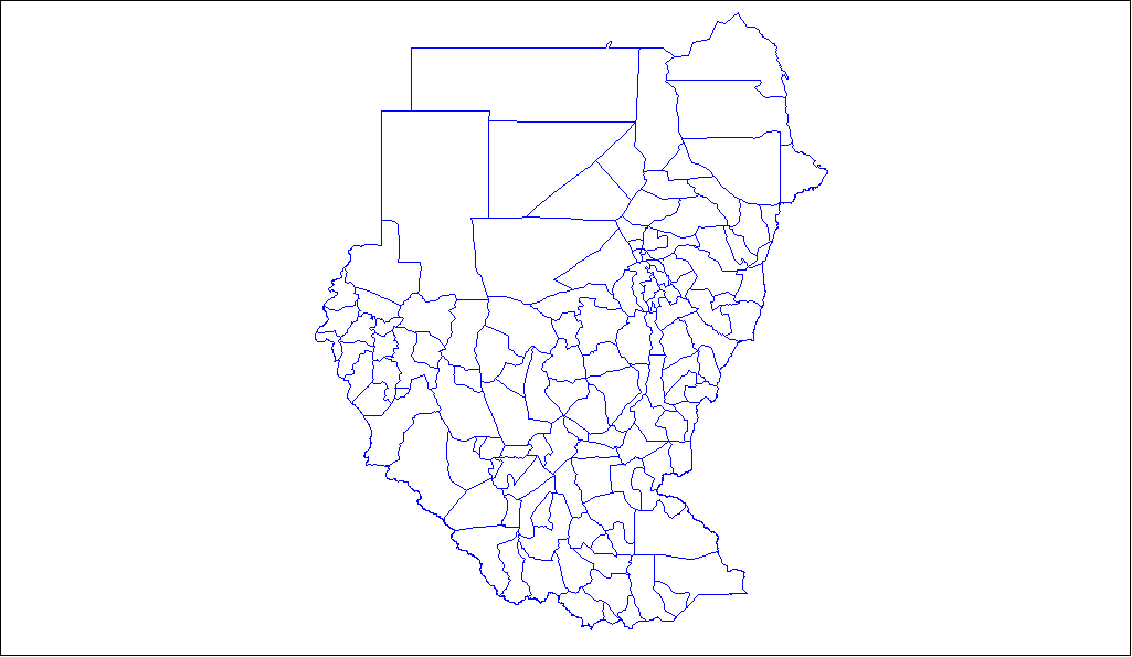 Map of the districts of Sudan. Created by Rarelibra 16:07, 27 April 2006 (UTC) for public domain use. Created using MapInfo Professional v7.5 and various mapping resources. (description from en.wiki)